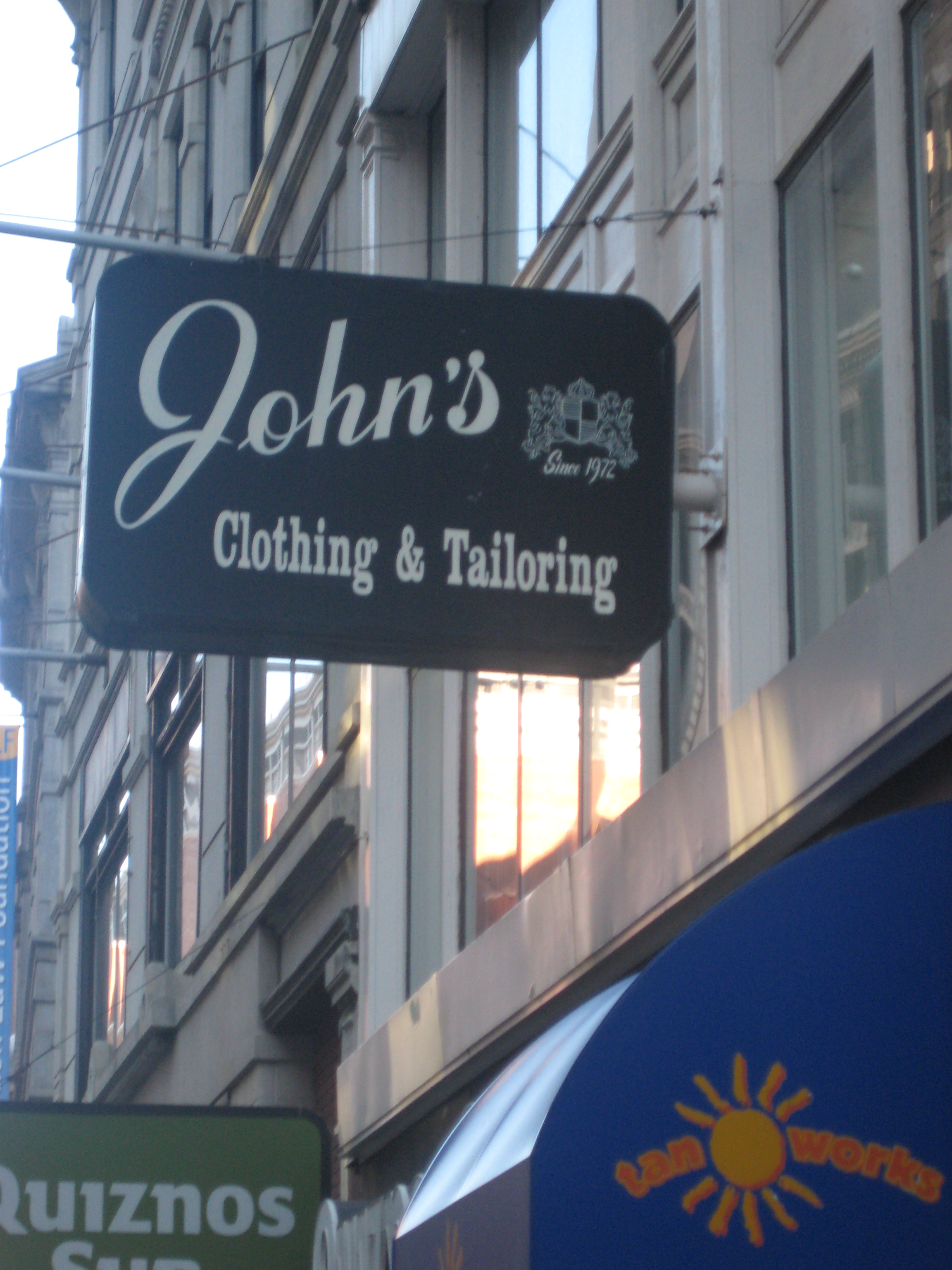 Clothier and tailor in the Financial District near South Station in Boston, Massachusetts, United States.